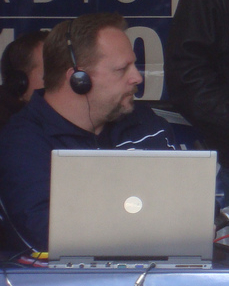 Ohio radio personality Bob Frantz